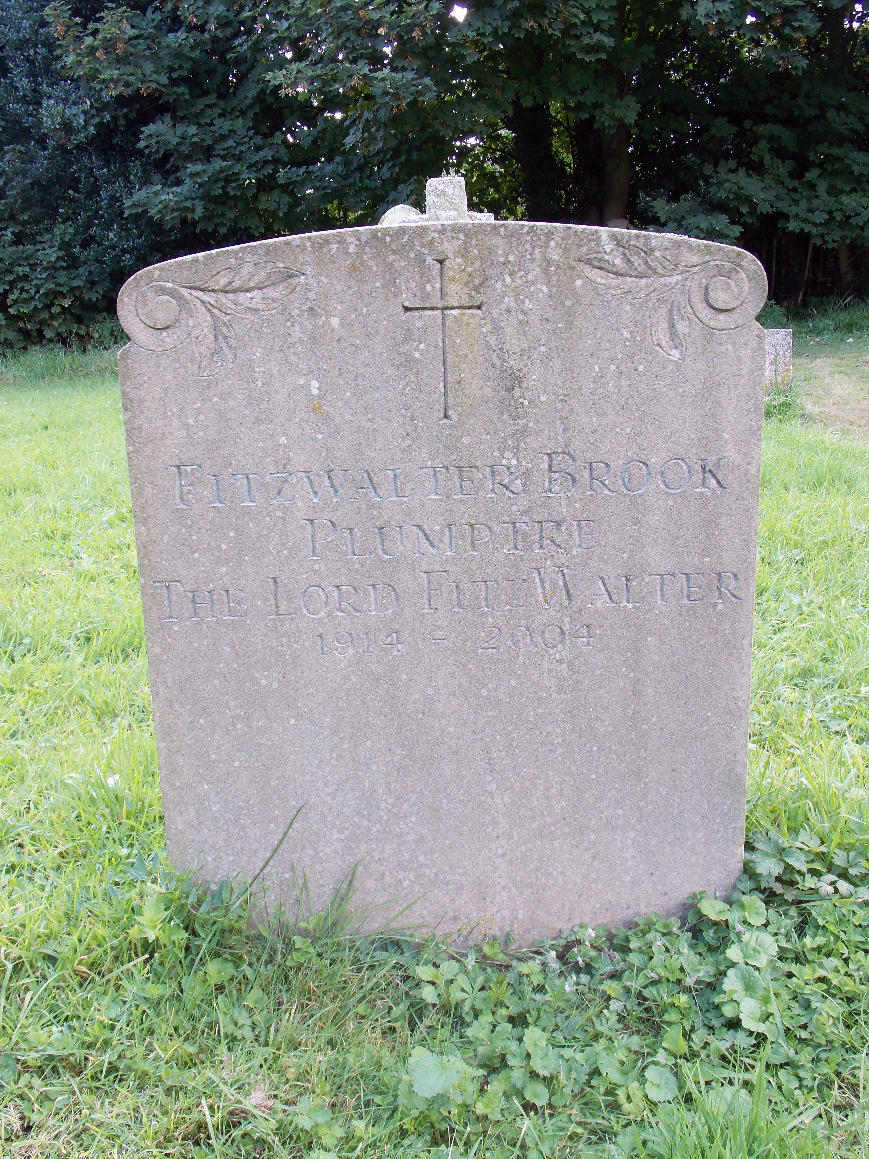 Headstone to Fitzwalter Brook Plumtre (1914-2004) in the churchyard of the Church of the Holy Cross, Goodnestone, near Dover, Kent, England.